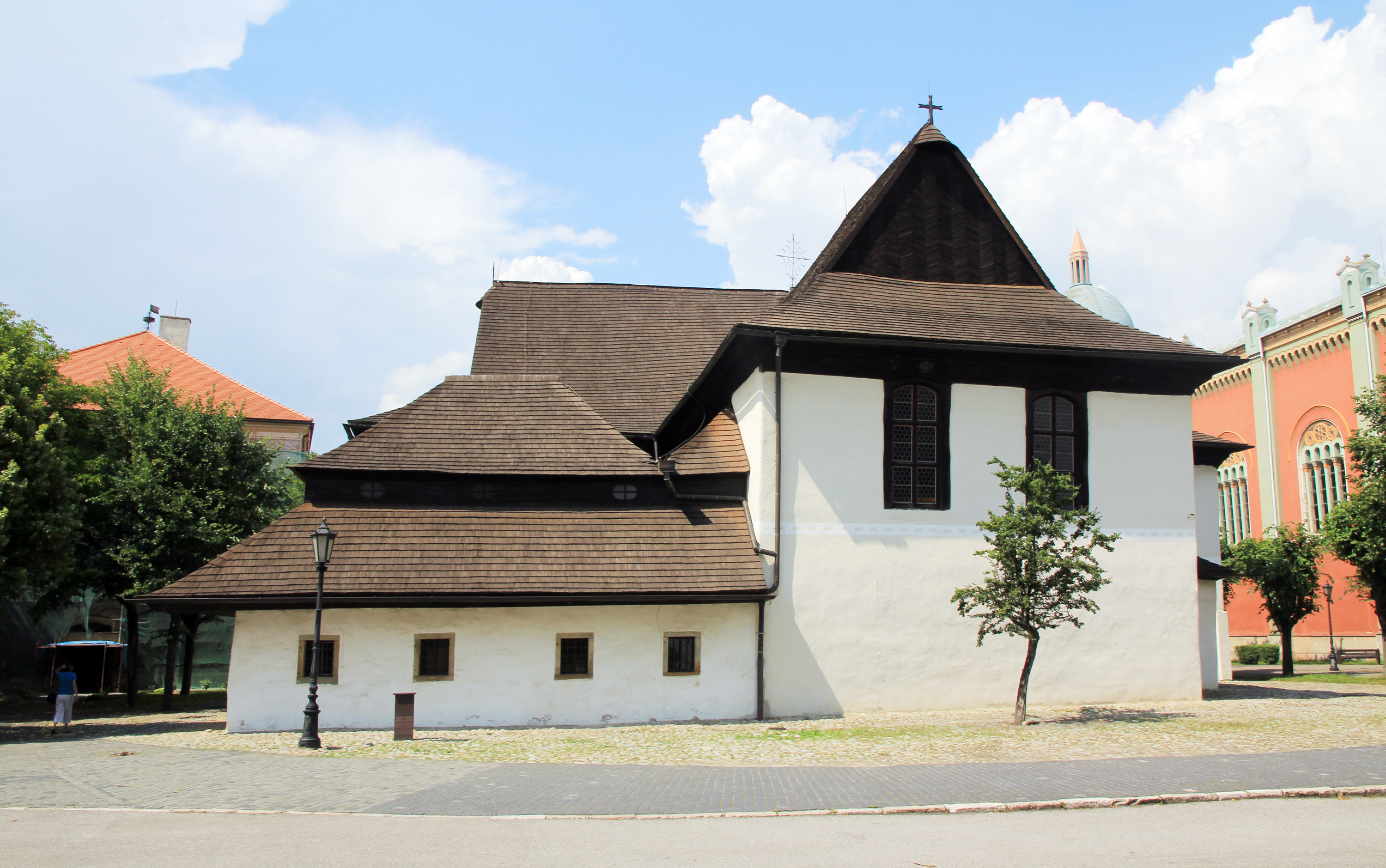 The Articular church in town Kežmarok, Slovakia